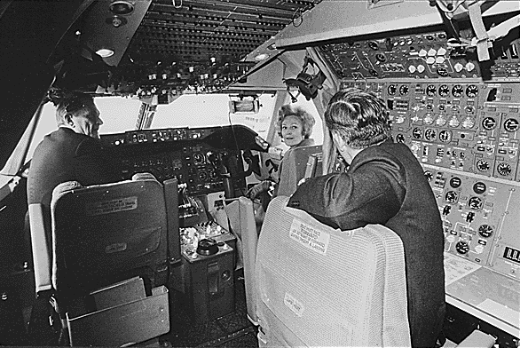 First Lady Pat Nixon visits the cockpit of the first commercial Boeing 747 jet in conjunction with the christening ceremony for the plane at Dulles International Airport.